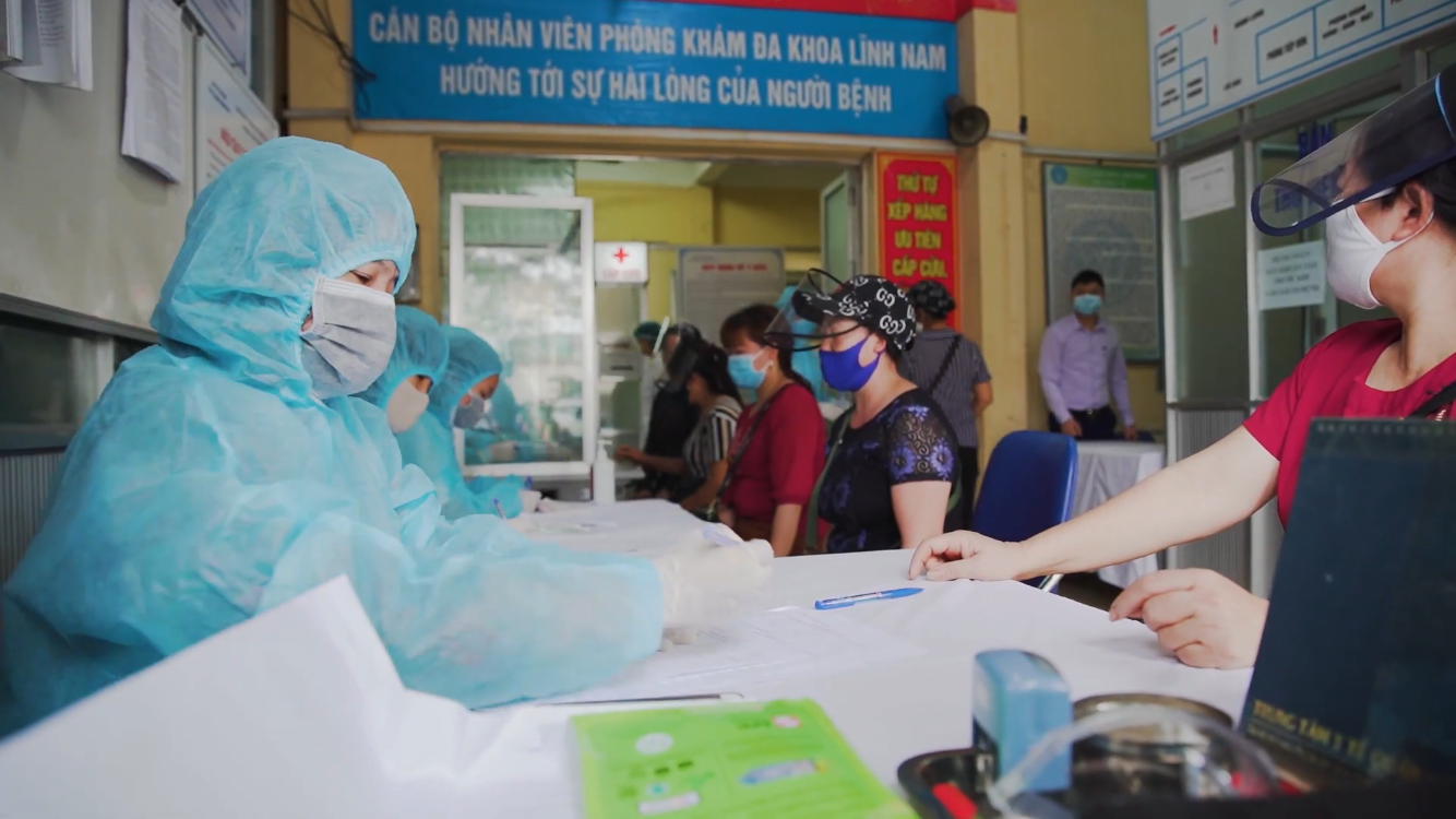 Vietnamese people registered for COVID-19 rapid testing in Hanoi